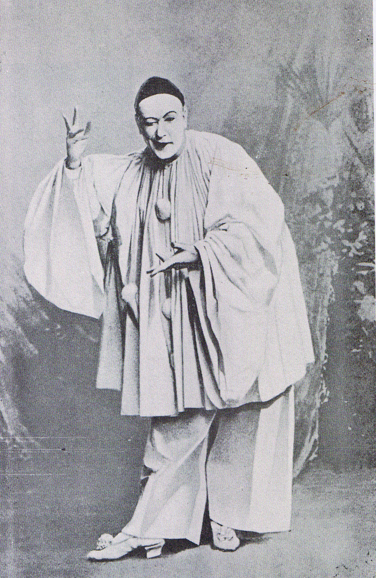 Photo of mime Séverin as Pierrot, c. 1896